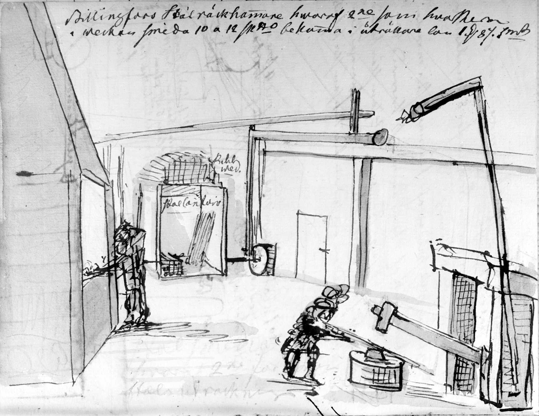 Billingsfors Iron Works, Dalsland, Sweden. Illustration by Reinhold Angerstein in a scetch book, 1758